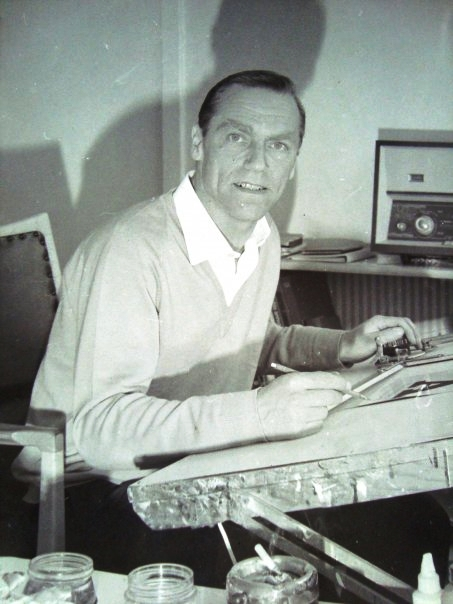 Portrait of Heinz Traimer Graphic Designer